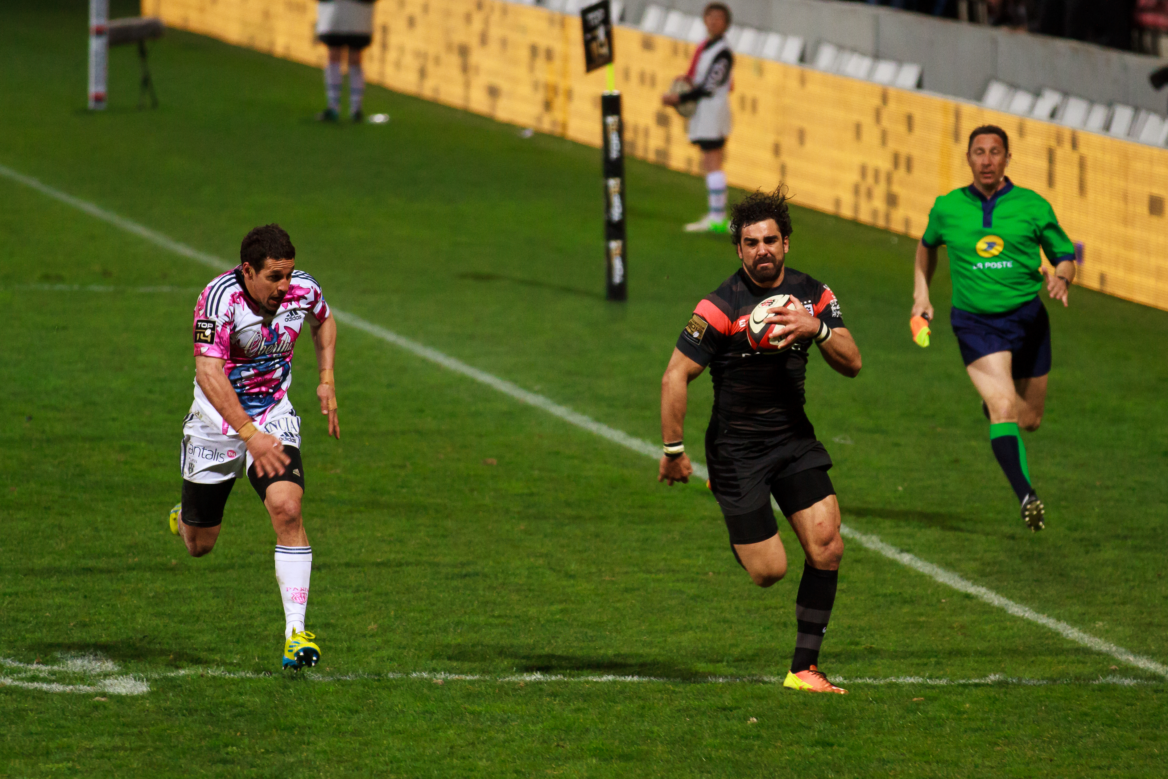 Yoann Huget out run Julien Arias to score his second try of the match during Stade toulousain vs Stade français Paris, March 24th, 2012